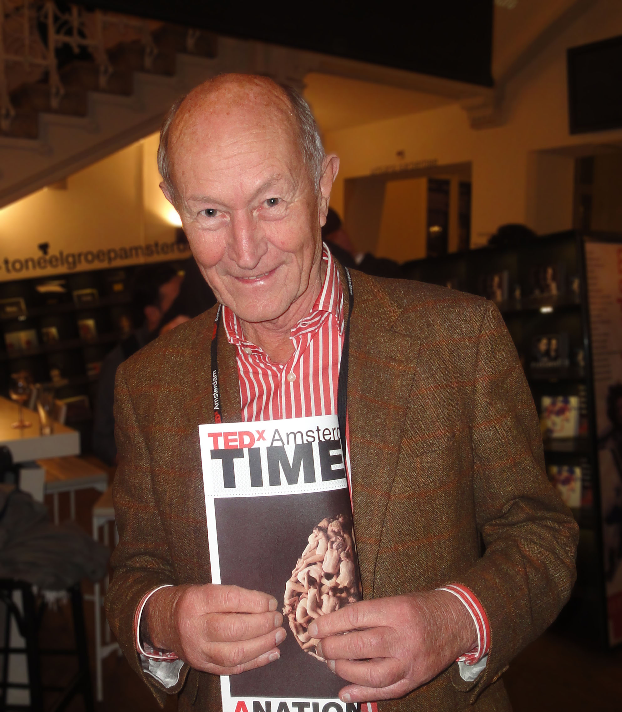 Peter_van_Lindonk at TEDxAmsterdam 2011